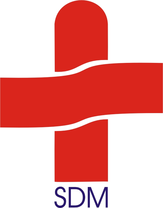 SDM Medical College Logo.